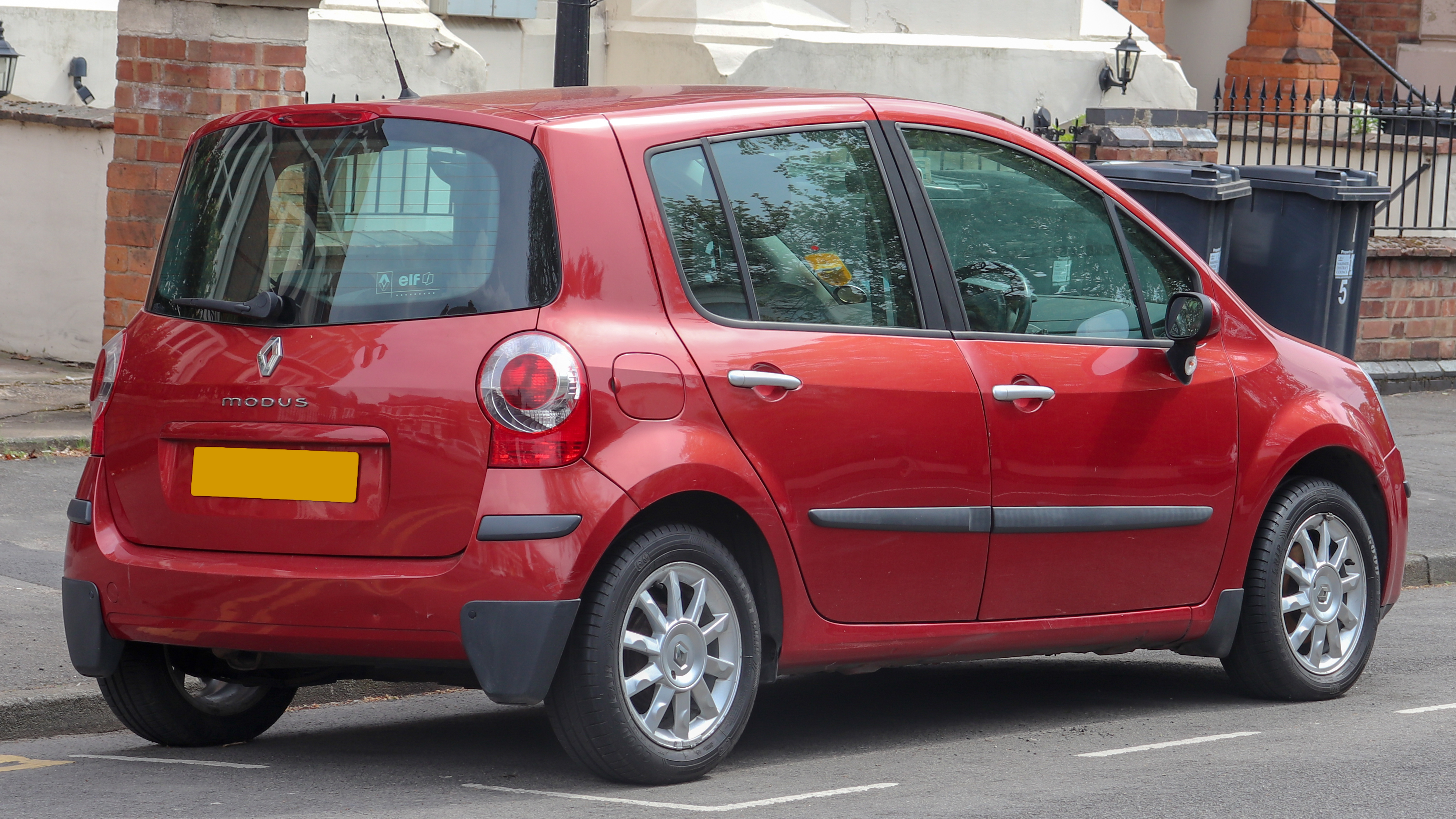 2005 Renault Modus Dynamique dCi 1.5 Rear Taken in Leamington Spa